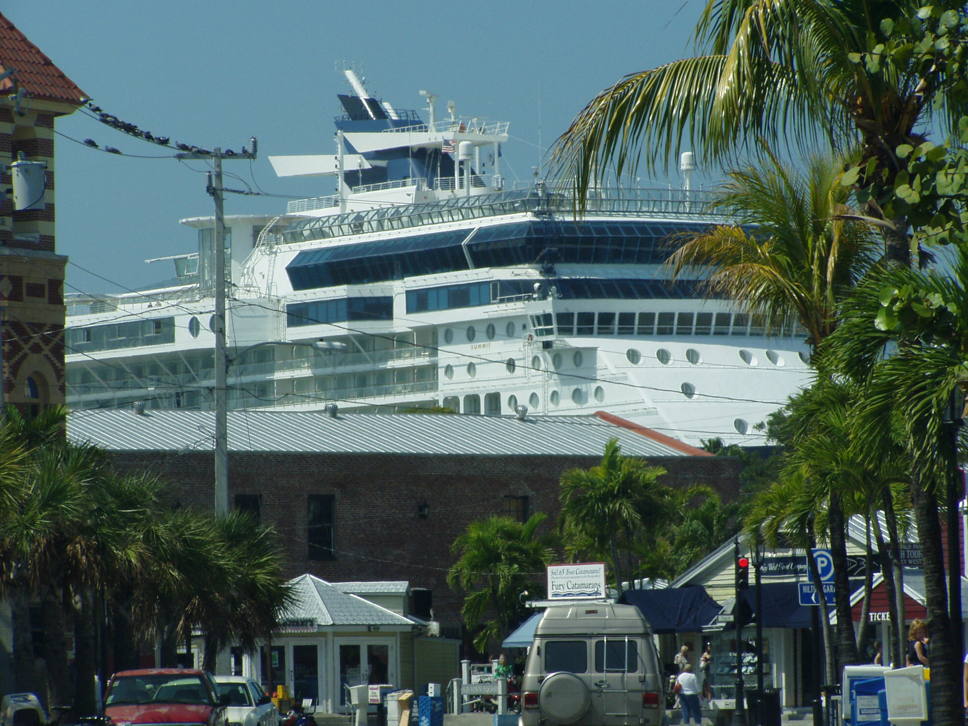 Statek wycieczkowy w Key West Name: Summit IMO Number: 9192387 MMSI Number: ? → 249047000 Callsign: ? → 9HJC9 Length: 294 m Beam: 32 m